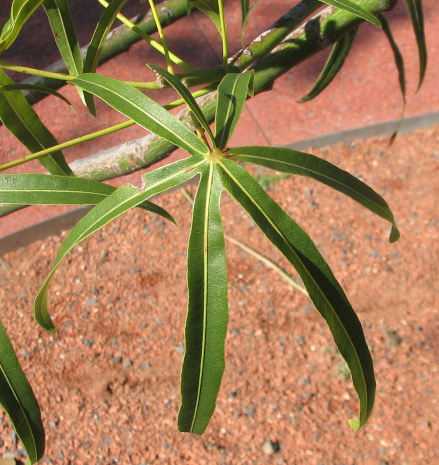 Brachychiton rupestris (cultivated, labelled) juvenile leaf, Royal Botanic Gardens Melbourne, Australia